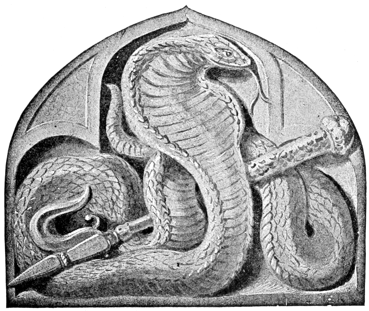 Stylized illustration depicting a cobra and ankus or elephant goad.